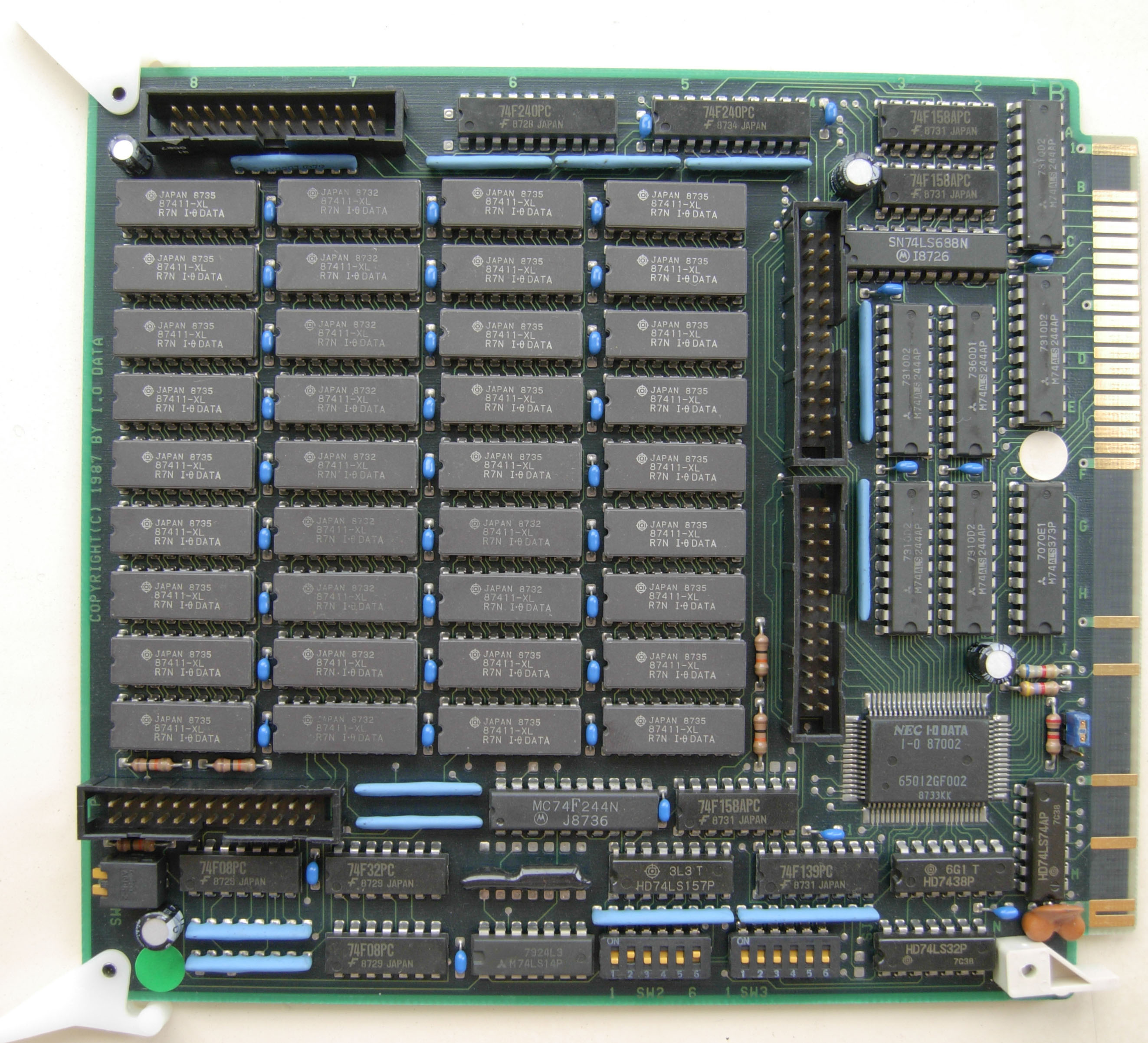 IO DATA PIO-9X34P 4 MB memory expansion board for NEC PC-9800 series, using a proprietary bank switching method.